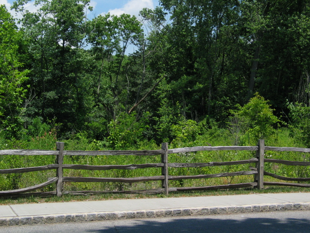 The greenery of the Staten Island